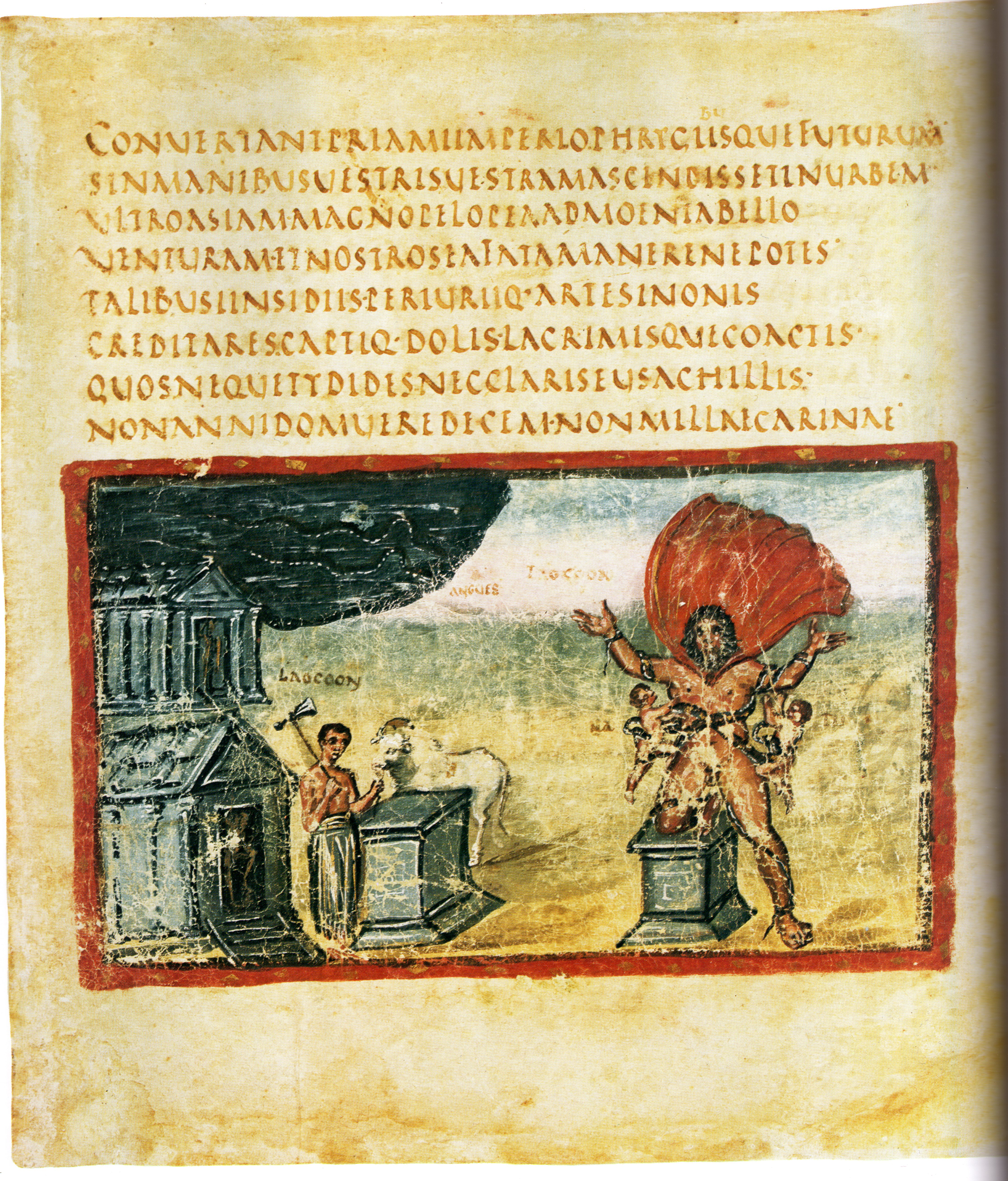 Folio 18v of the Vatican Vergil (Vatican, Biblioteca Apostolica, Cod. Vat. lat. 3225). Death of Laocoön. Illustration of text from the Aeneid : II, 191-198